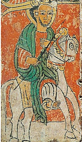 detail from Ethiopian icon, IESMus3450, showing Negus Lalibela